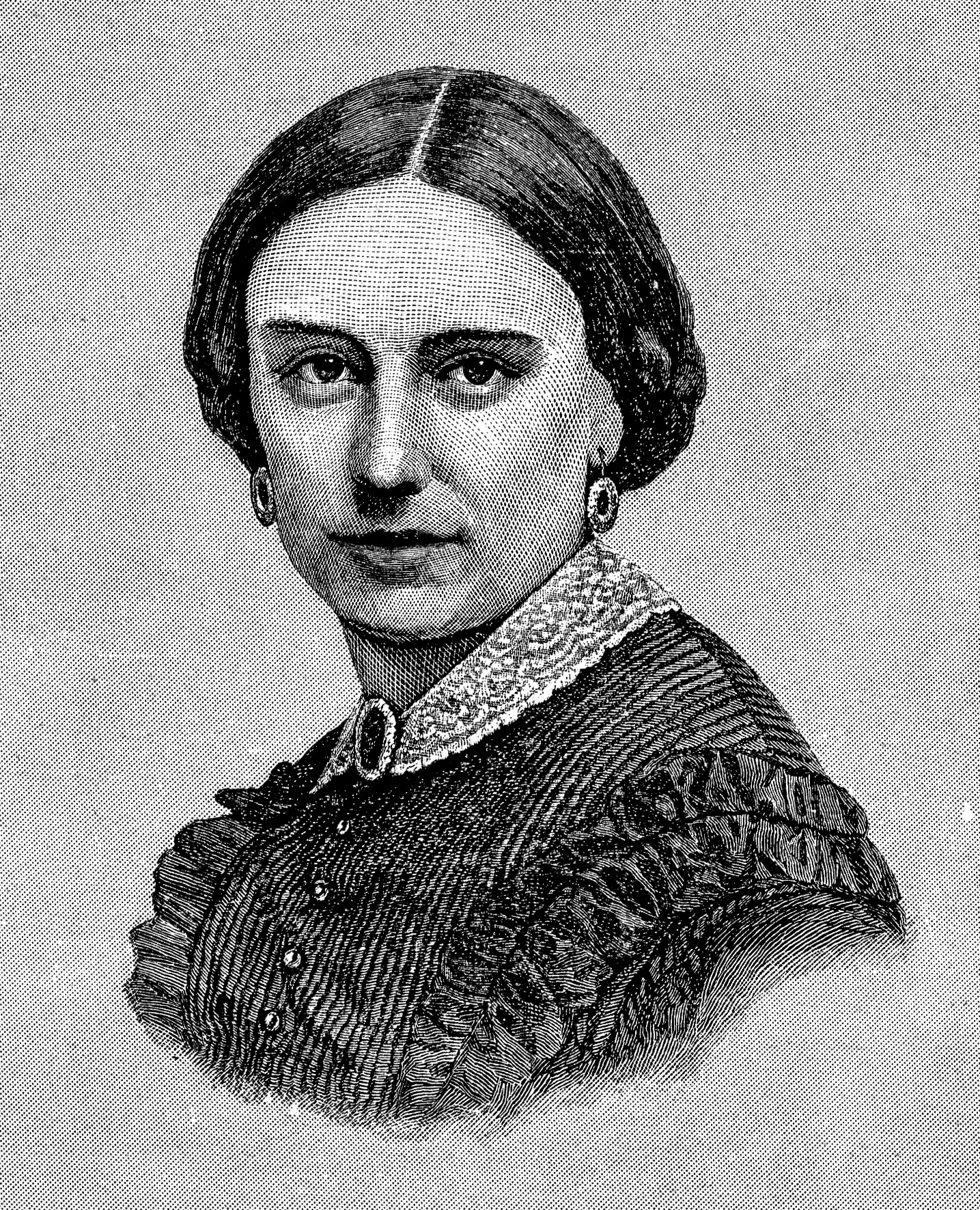 Mary Richmond Bishop, wife of Civil War general and Rhode Island governor Ambrose Everett Burnside. Engraving from The Providence Plantations for 250 Years, Welcome Arnold Greene, 1886. Page 223.